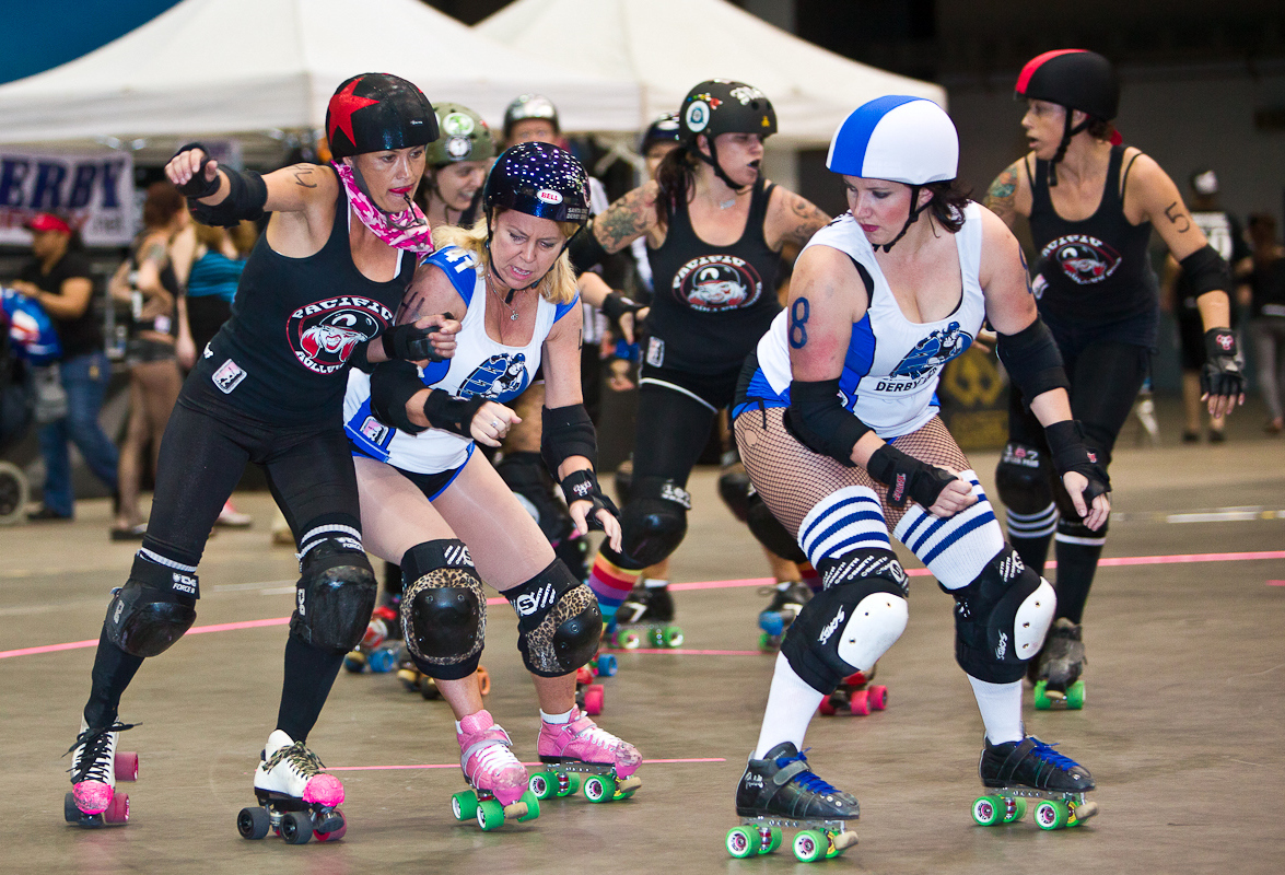 Two blockers from FoCo Girls Gone Derby (in white) attempt to ward off the Pacific Roller Derby jammer (in black) at the 2011 Dust Devil tournament.